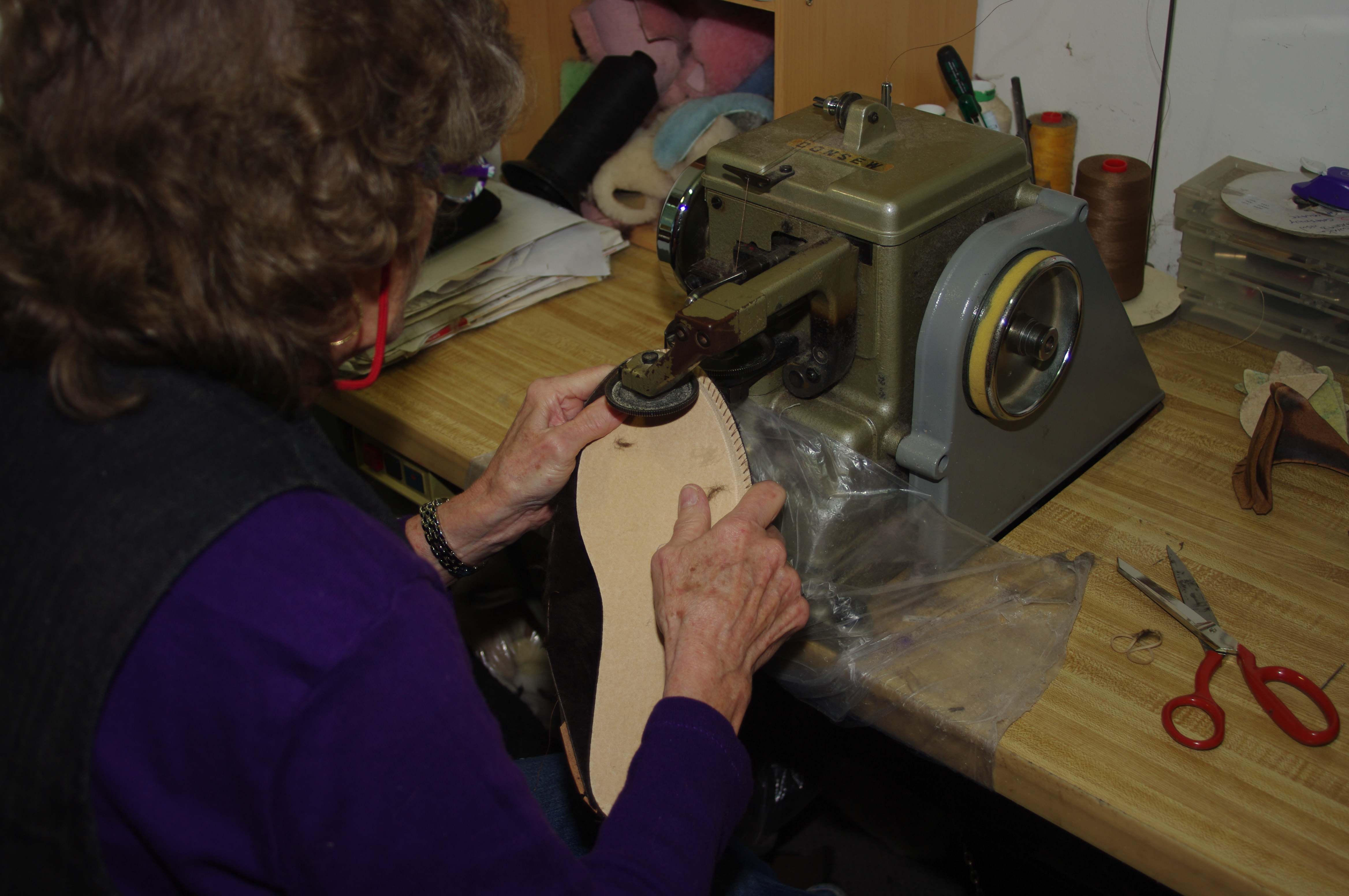 Uggs boots being manufactured in Australia at Uggs-N-Rugs sewing the innnersole inot the boot